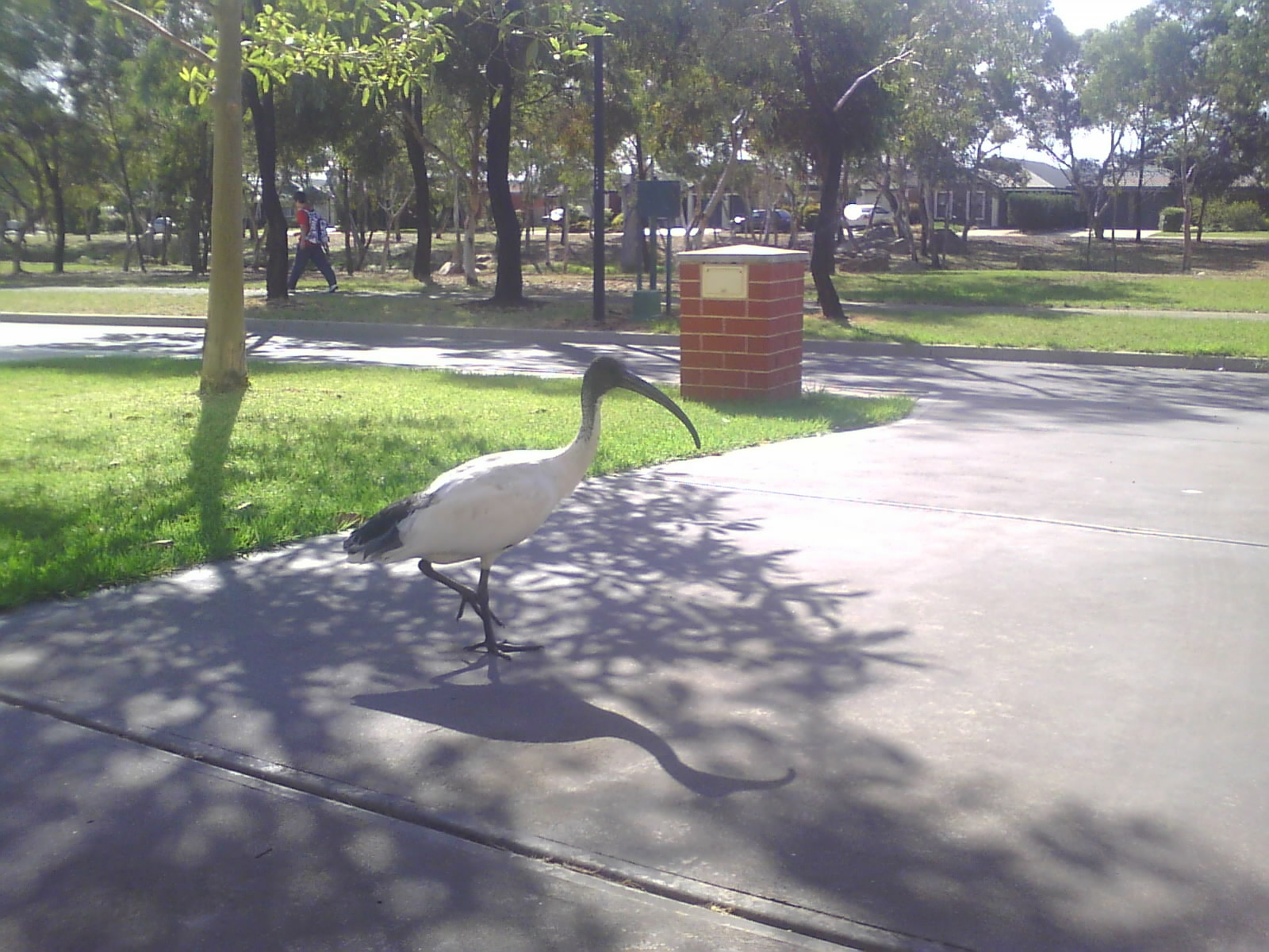 Subject: Australian White Ibis (Threskiornis molucca) Author: Brendon Amos Source: Digital Camera Phone